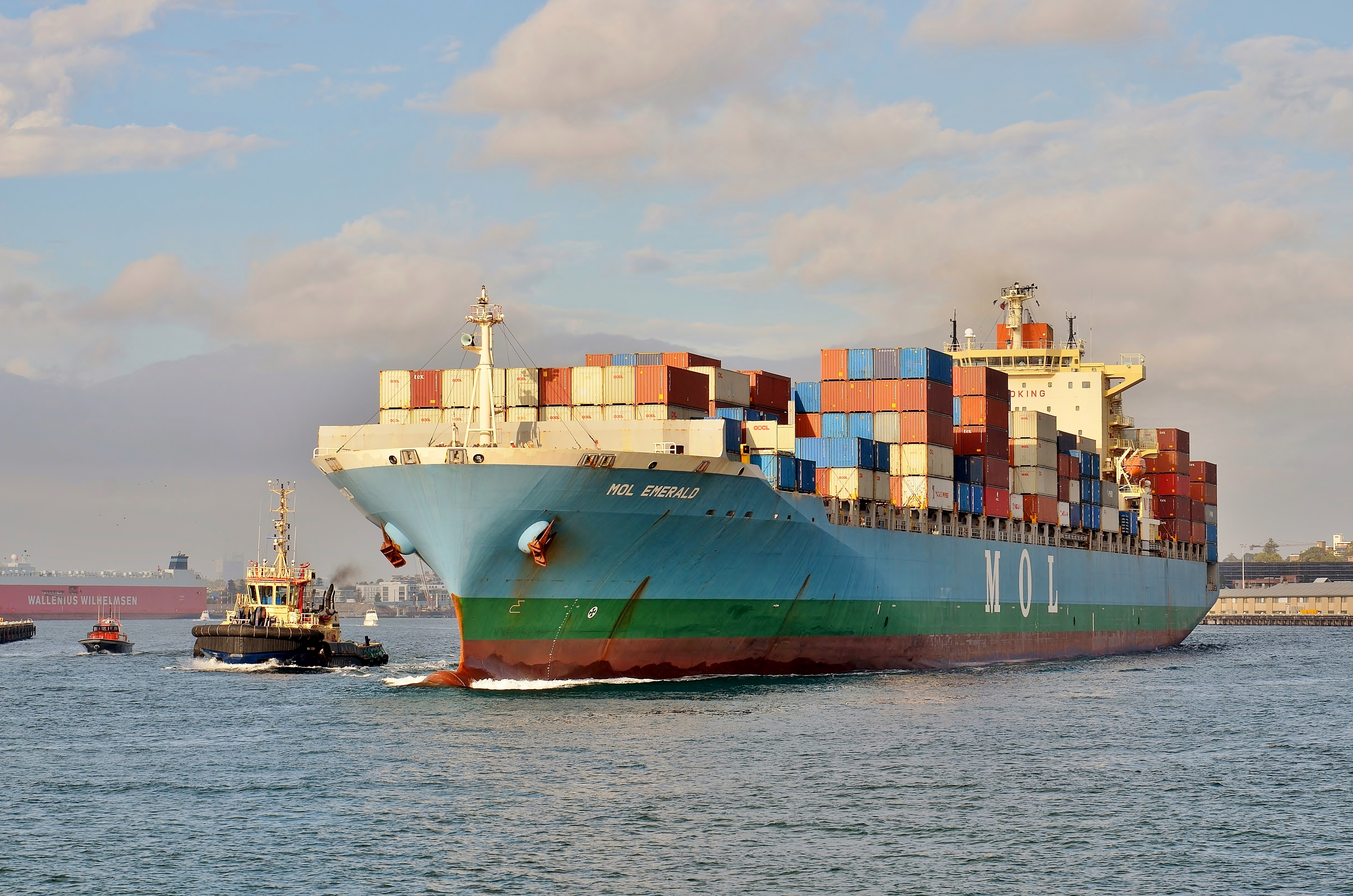 Container ship MOL Emerald departing from the inner harbour of Fremantle Harbour, Western Australia, on a liner voyage to Singapore.